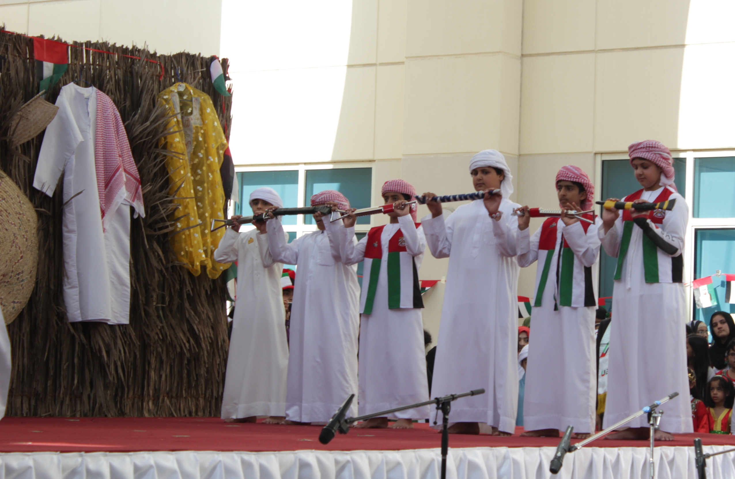 Yowla, a traditional dance in the United Arab Emirates